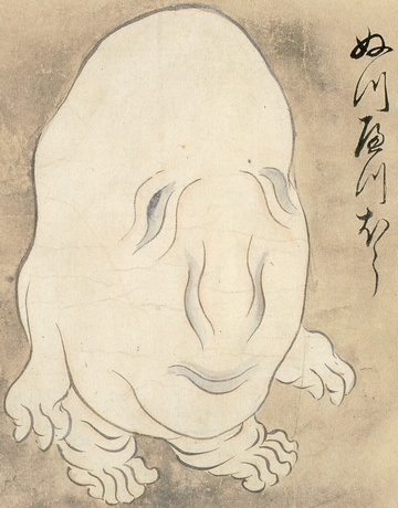 Nuppeppo (an animated lump of decaying human flesh) from the Hyakkai-Zukan